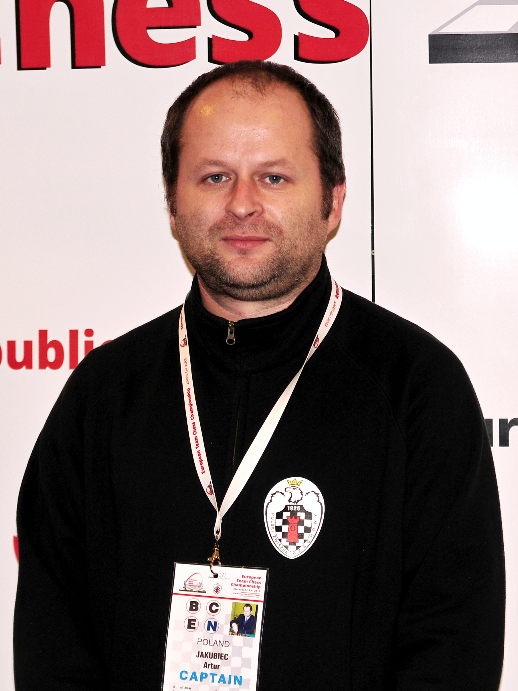 GM Artur Jakubiec, European Chess Team Championship Warsaw 2013